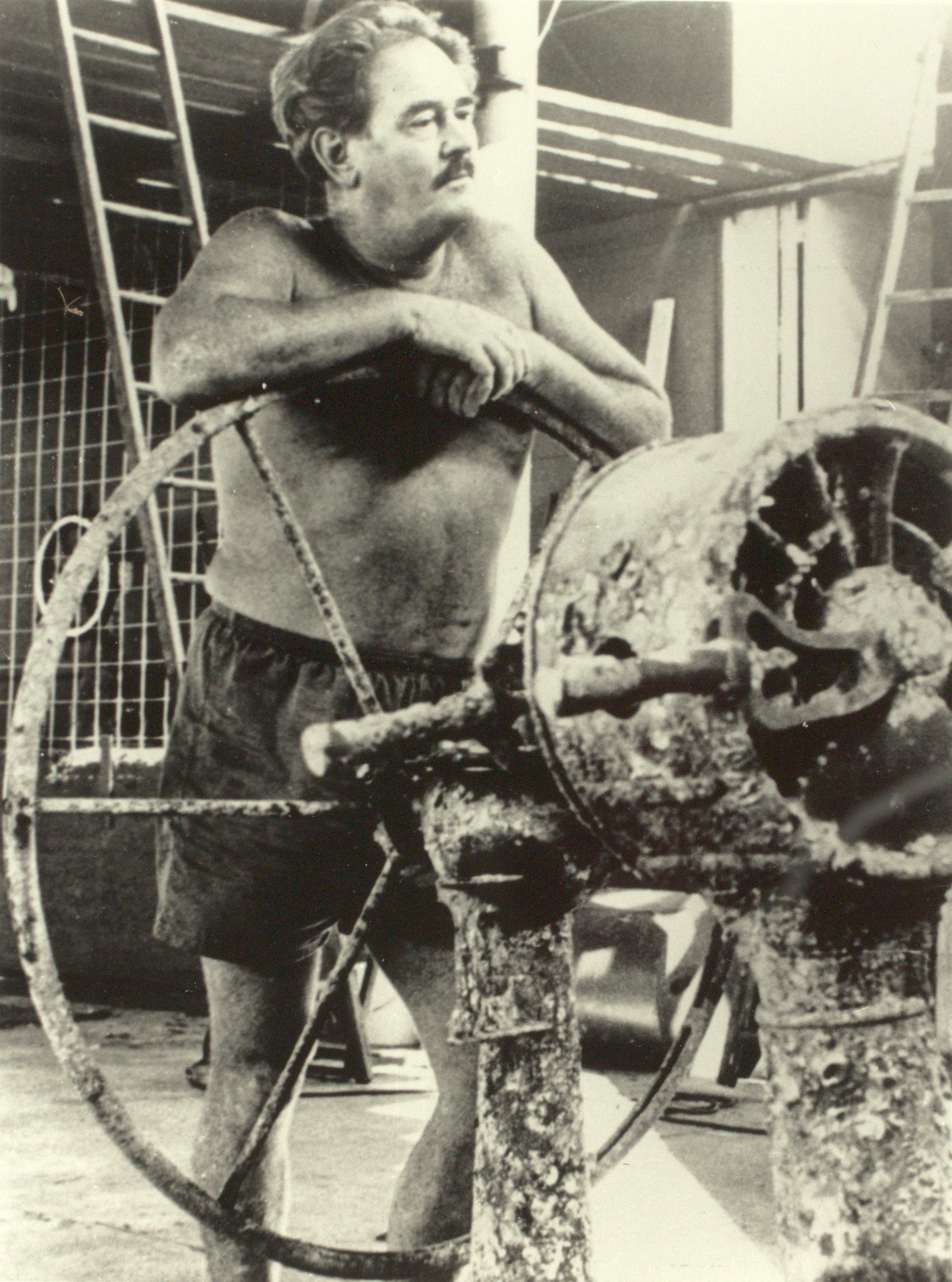 Carl Atkinson with the wheel from the USS Peary, sunk in Darwin Harbour 19/02/42. The wheel was one of many objects Carl recovered from harbour wrecks.